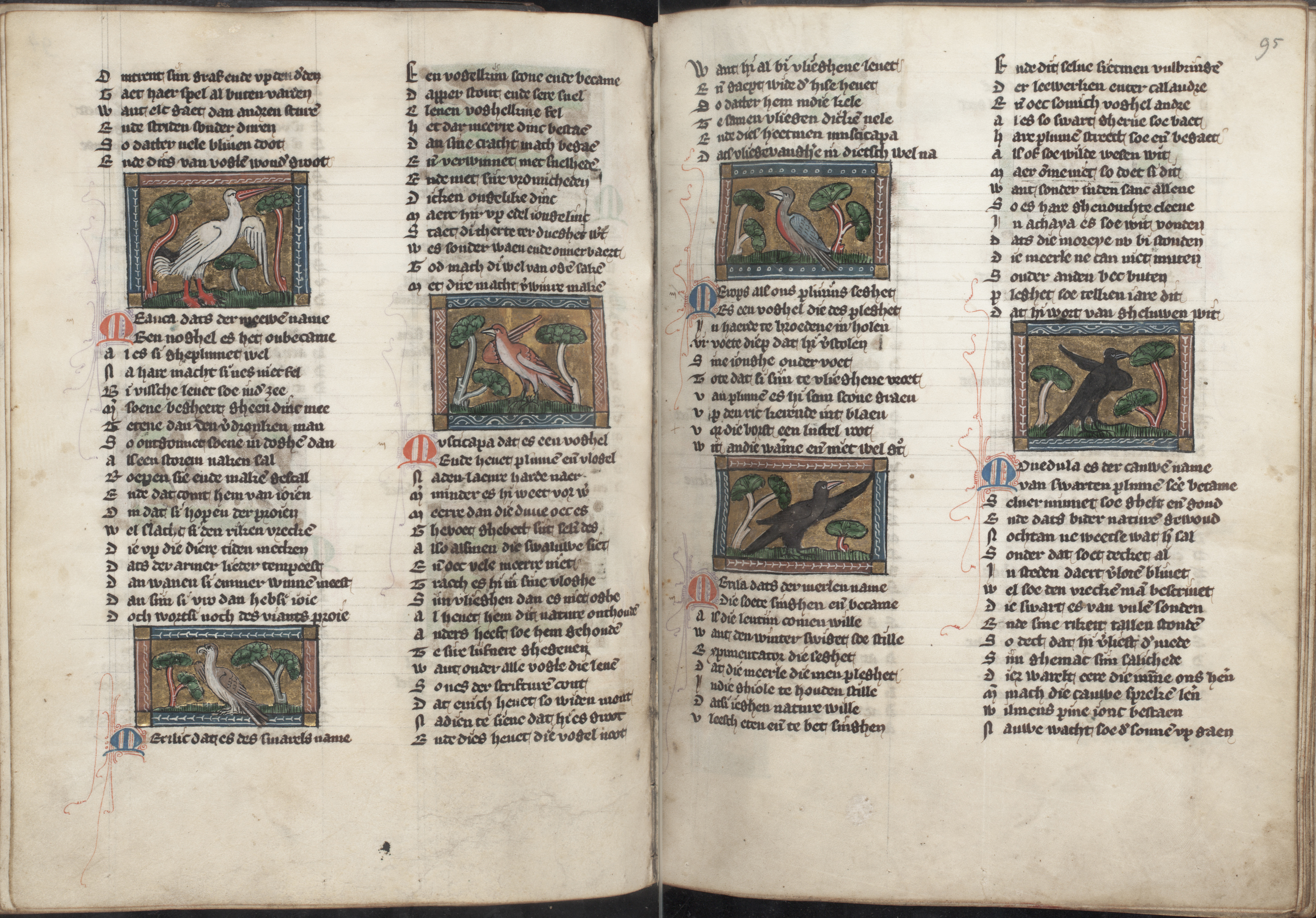 Lefthand side folio 094v and righthand side folio 095r from Der naturen bloeme (KB KA 16) by Jacob van Maerlant Miniatures on the left folio 094v Meauca (gull) Merulus (blackbird) Muscipia See these miniatures on the website of the KB: Meauca (meeuw) - Merulus (merel) - Muscipia Miniatures on the right folio 095r Merops (bee-eater) Merula (blackbird) Monedula (jackdaw) See these miniatures on the website of the KB: Merops - Merula (merel) - Monedula (kauw)